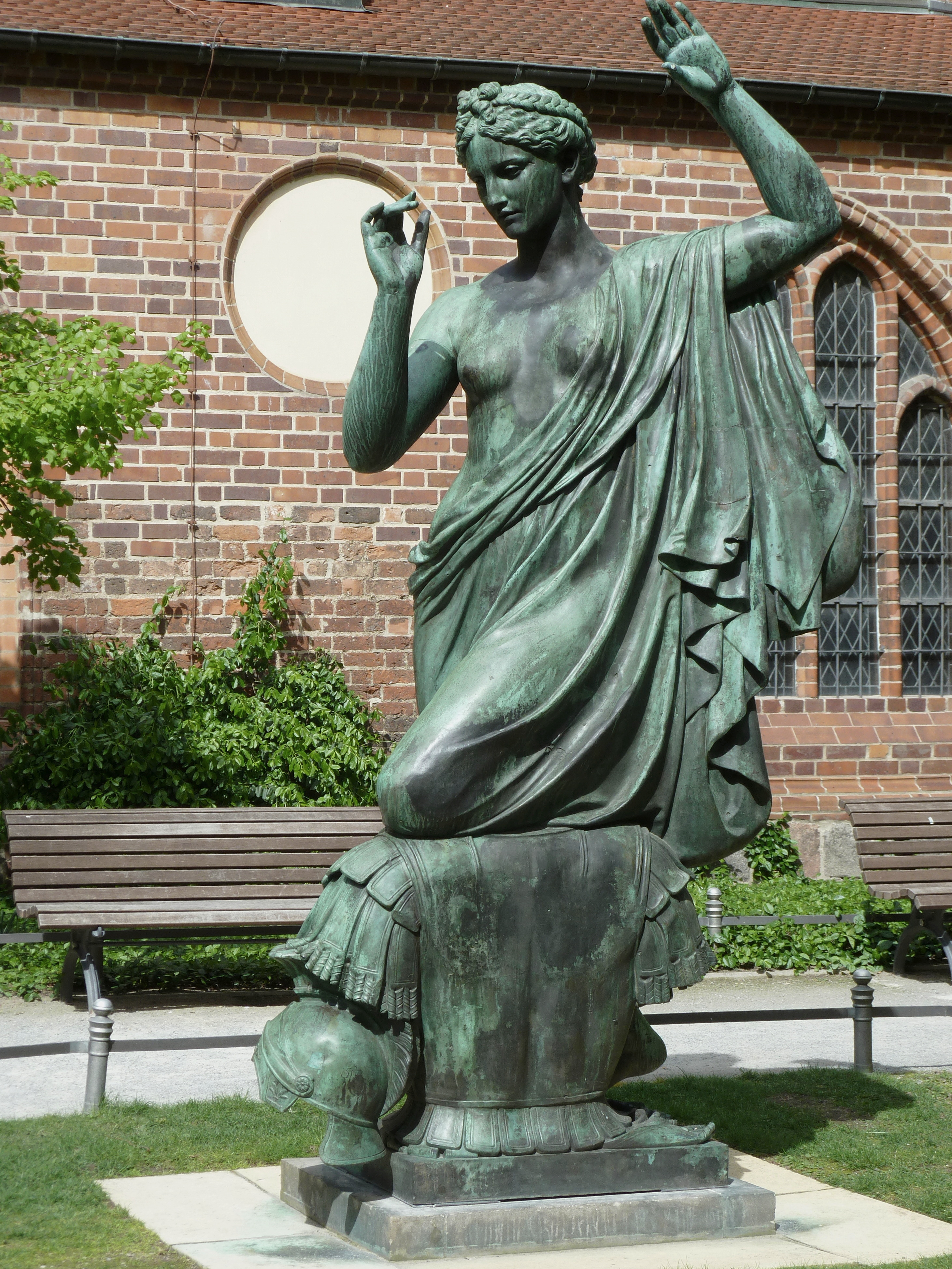 Statue of Clio by Albert Wolff unveiled in 1871 in front of St. Nicholas Church in Berlin